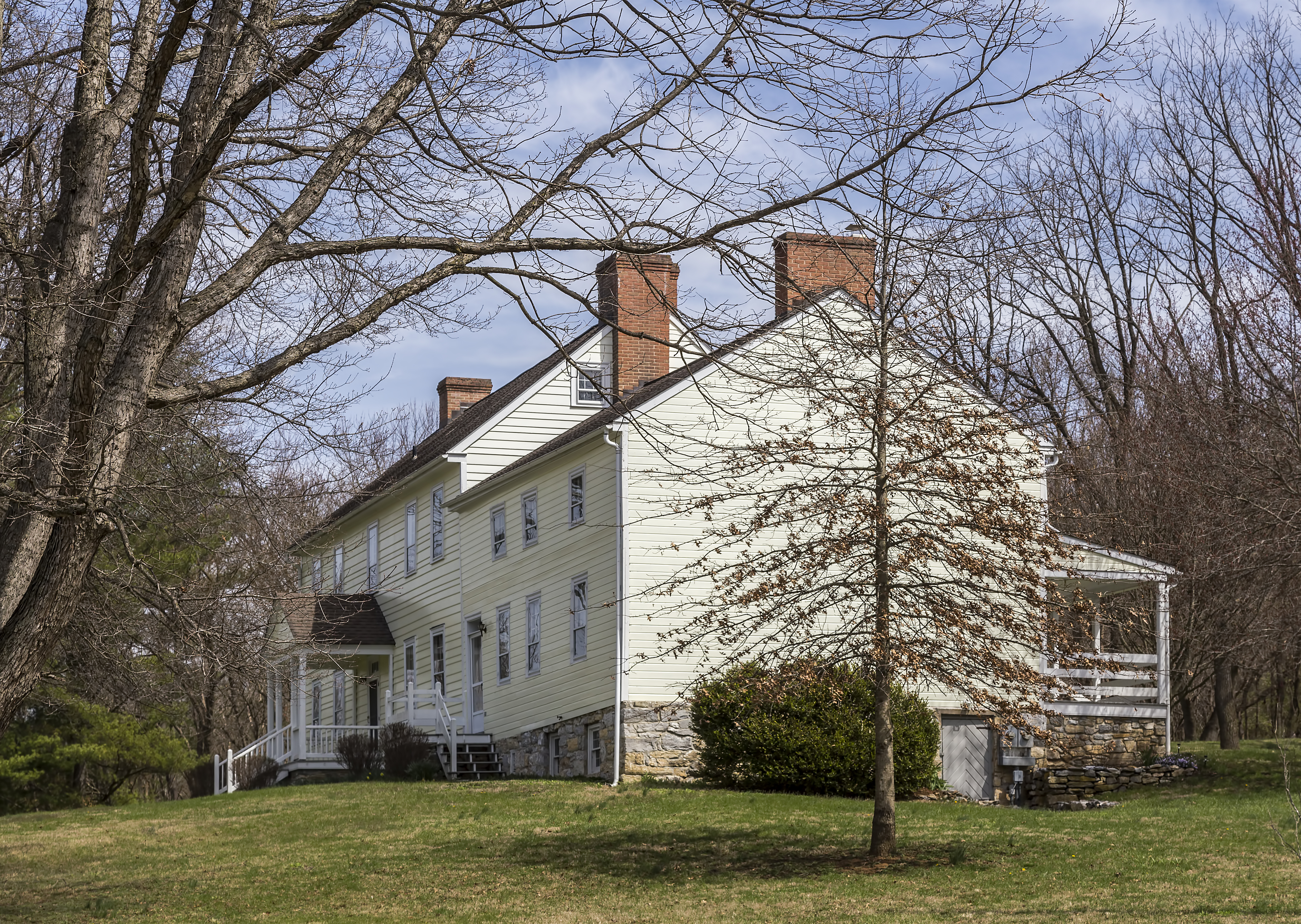 The Hitt/Cost House near Keedysville, Maryland, USA at Hitt's/Pry's Mill